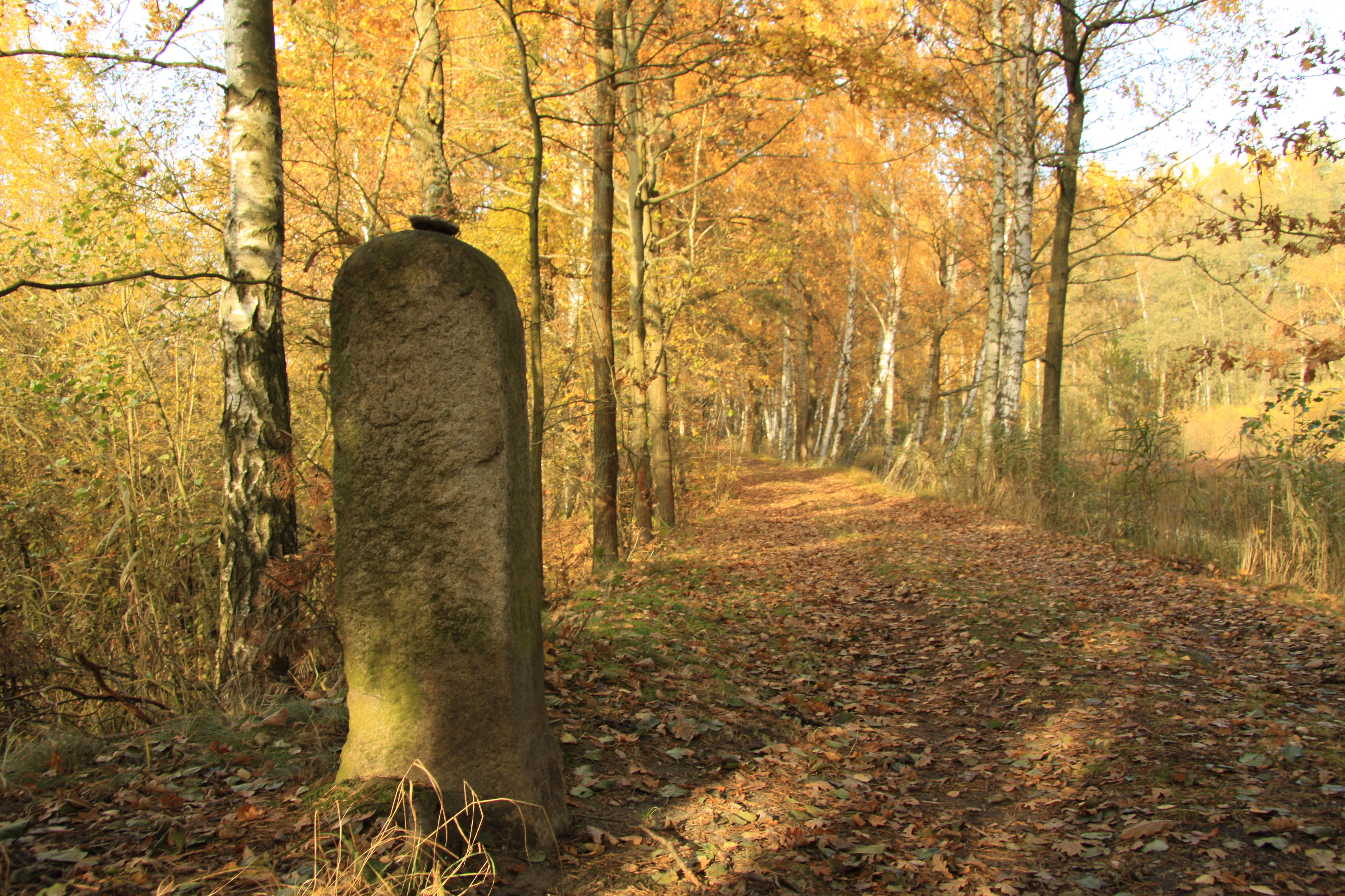 National nature reserve Řežabinec a Řežabinecké tůně in autumn 2011 in Písek District, Czech Republic